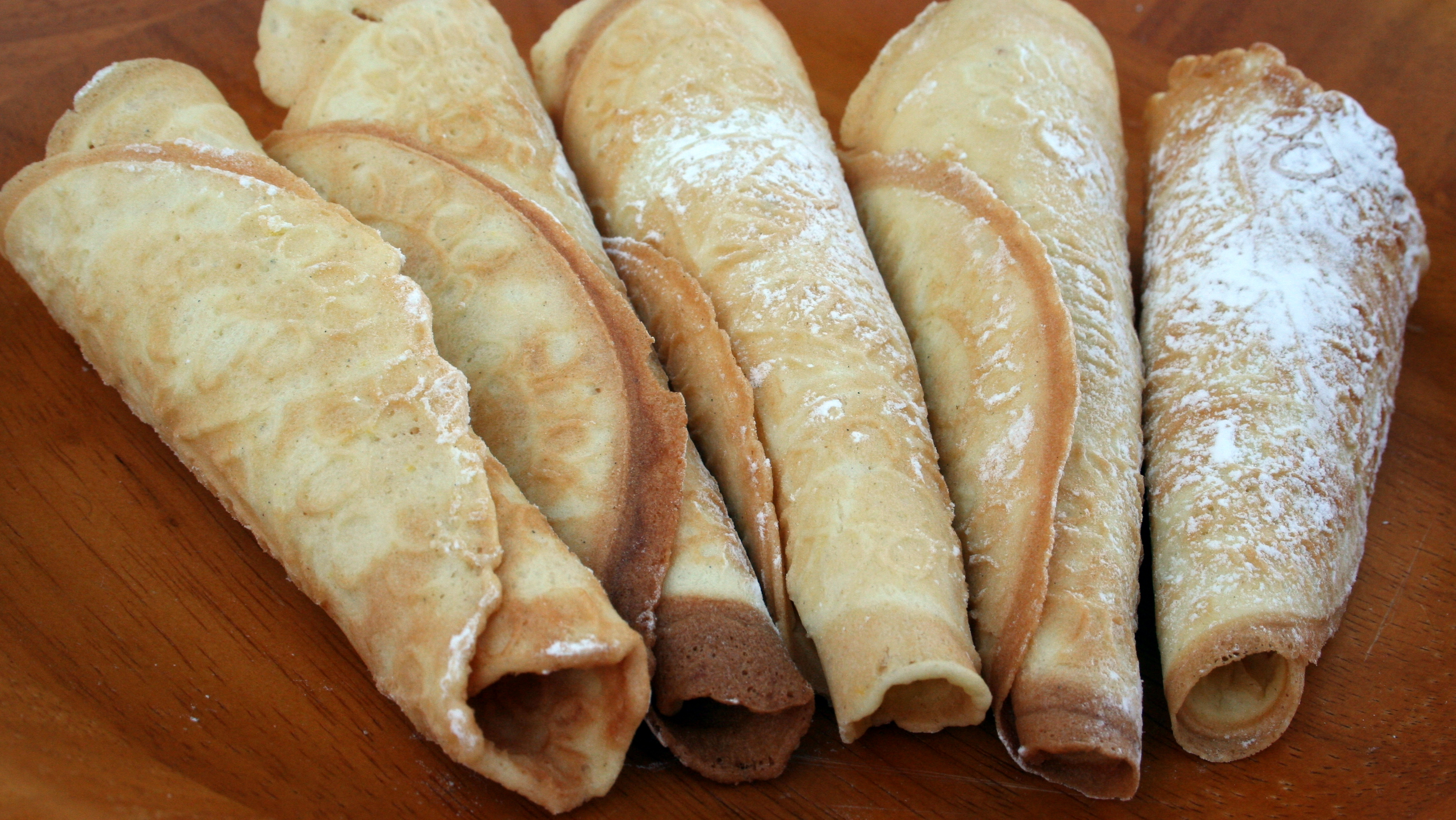 Five cone-shaped "krumkaker" Norwegian pastries dusted with powdered sugar on wooden plate